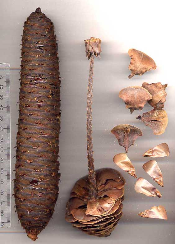 Abies borisii-regis cones: mature cone (left), disintegrated cone (centre), loose scales (top right) & seeds (lower right). Pirin Mountains, Bulgaria, approx. 1720 m altitude.